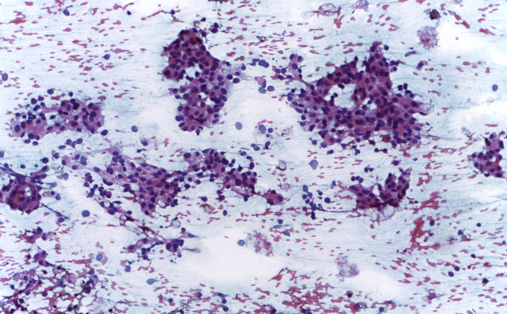 Cellular aspirate showing loosely cohesive atypical cells in a bloody background(Papanicolaou, 100X)